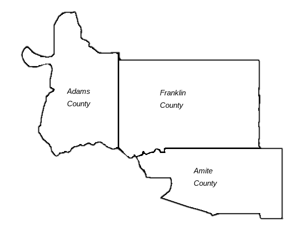 The 37th district in the Mississippi Senate from 1991 to 2001. Image based on: End date